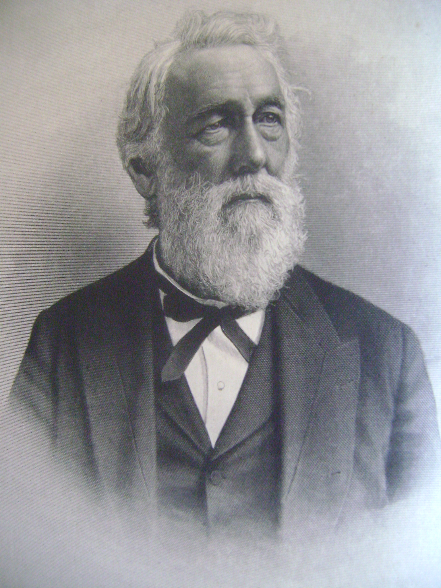 Portrait of Reuben T. Durrent in 1908